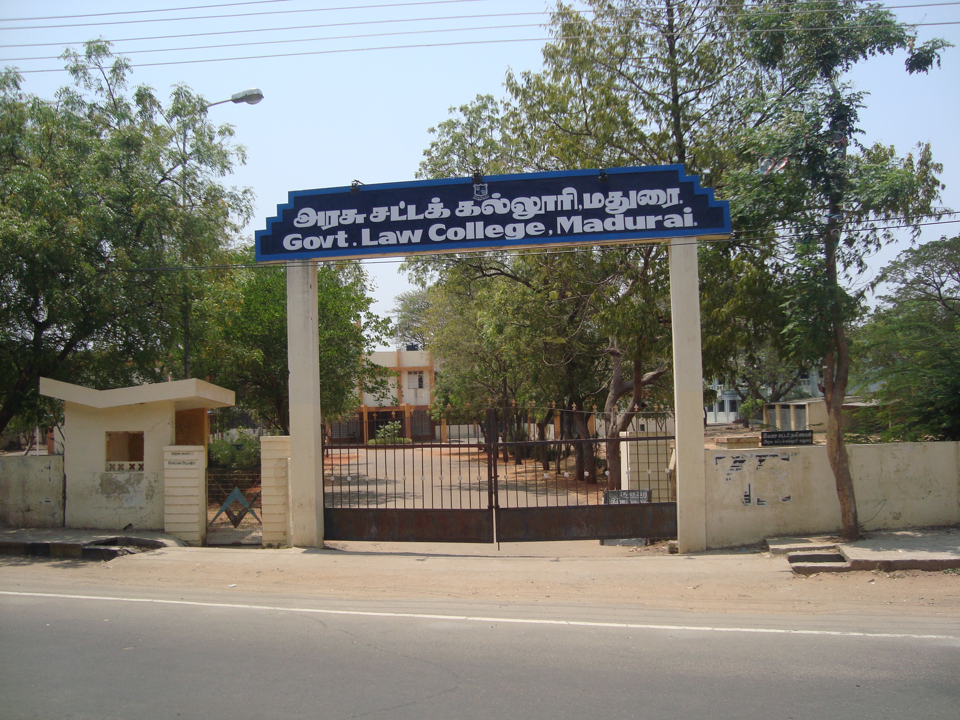 Madurai Government Law College Front side